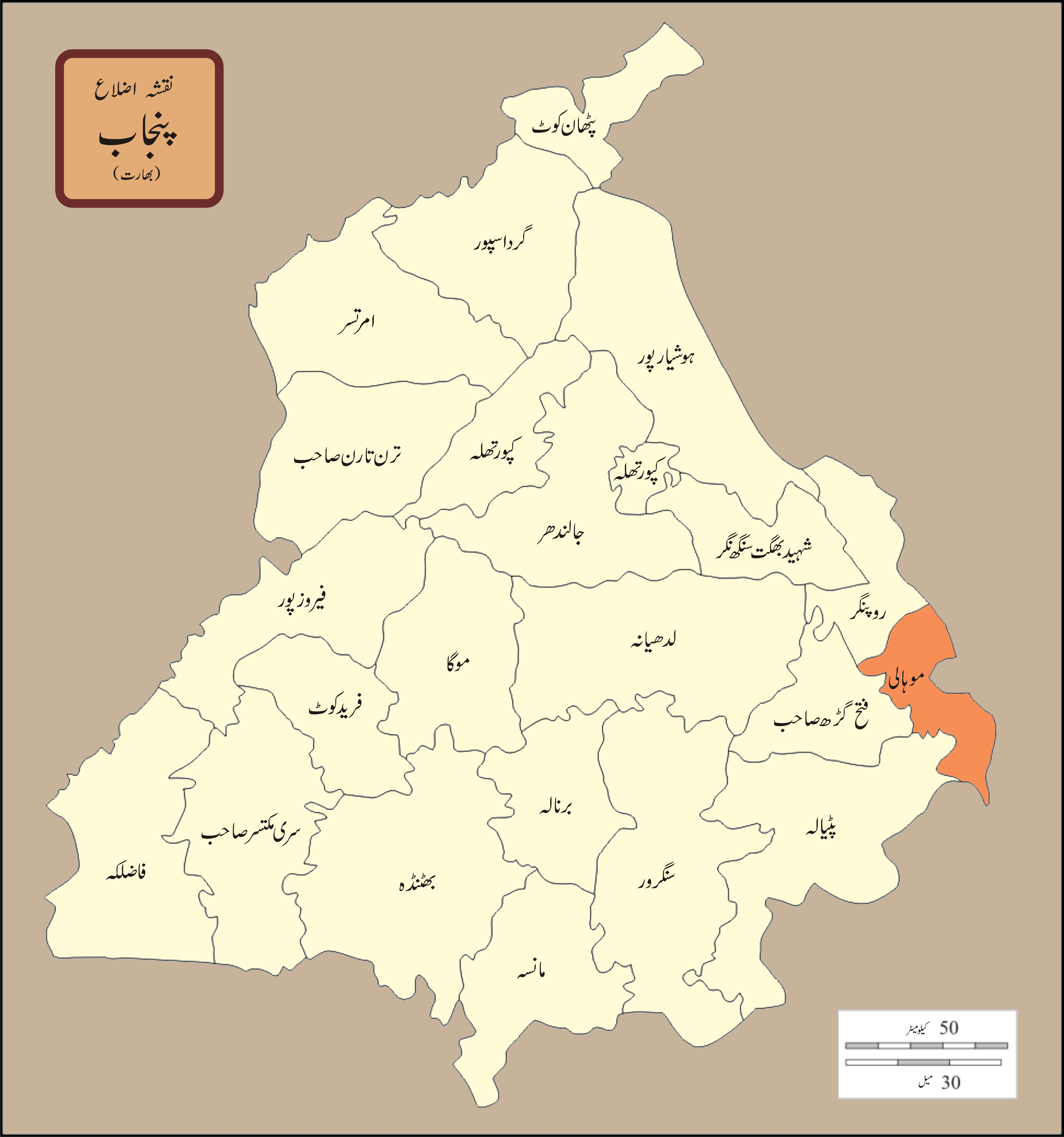 Punjab India Dist Mohali (Urdu)